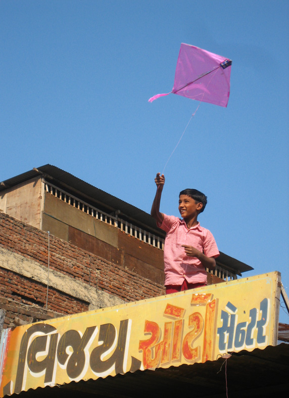 Above the Kite Market near Dilli Diwarja.